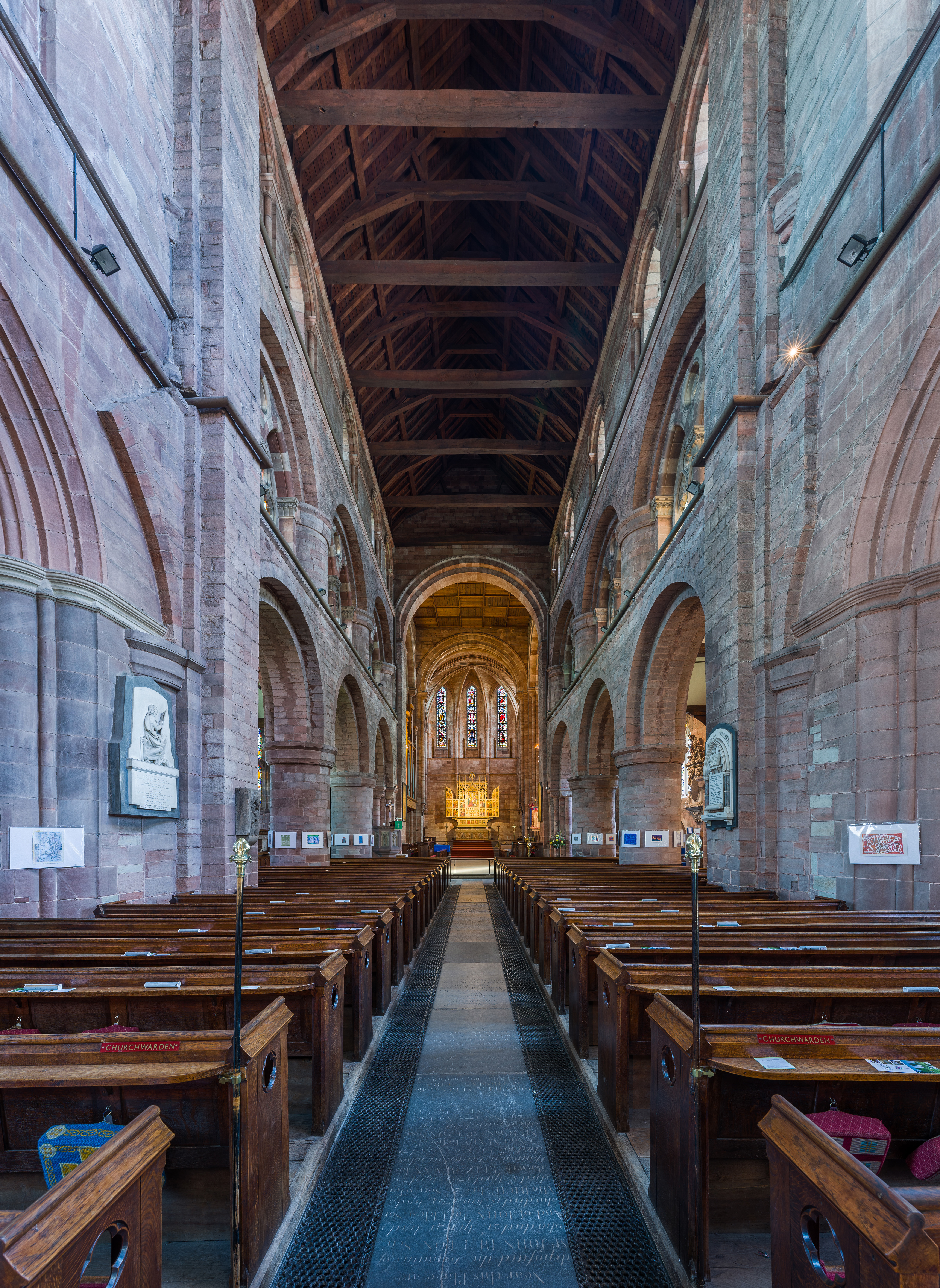 The nave of Shrewsbury Abbey in Shropshire, England.